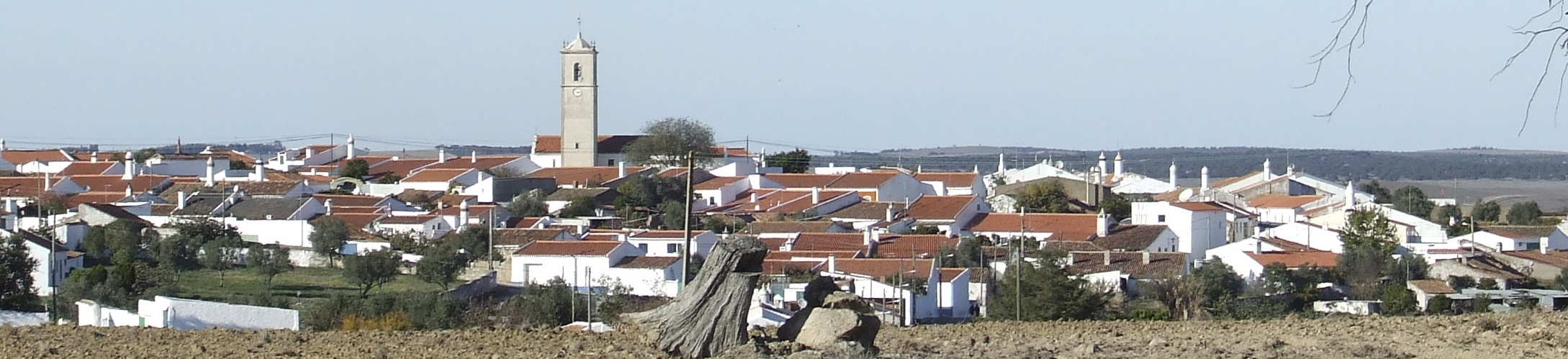 Panoramic View of Casével